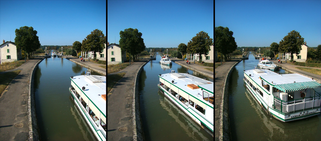 Briare, Loiret, Centre, France. Cruise traffic on the canal bridge.